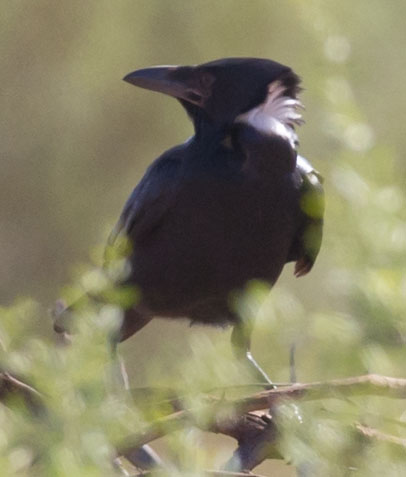 strange crow markings under the wings, i have never seen them. I have greater minds looking into it?